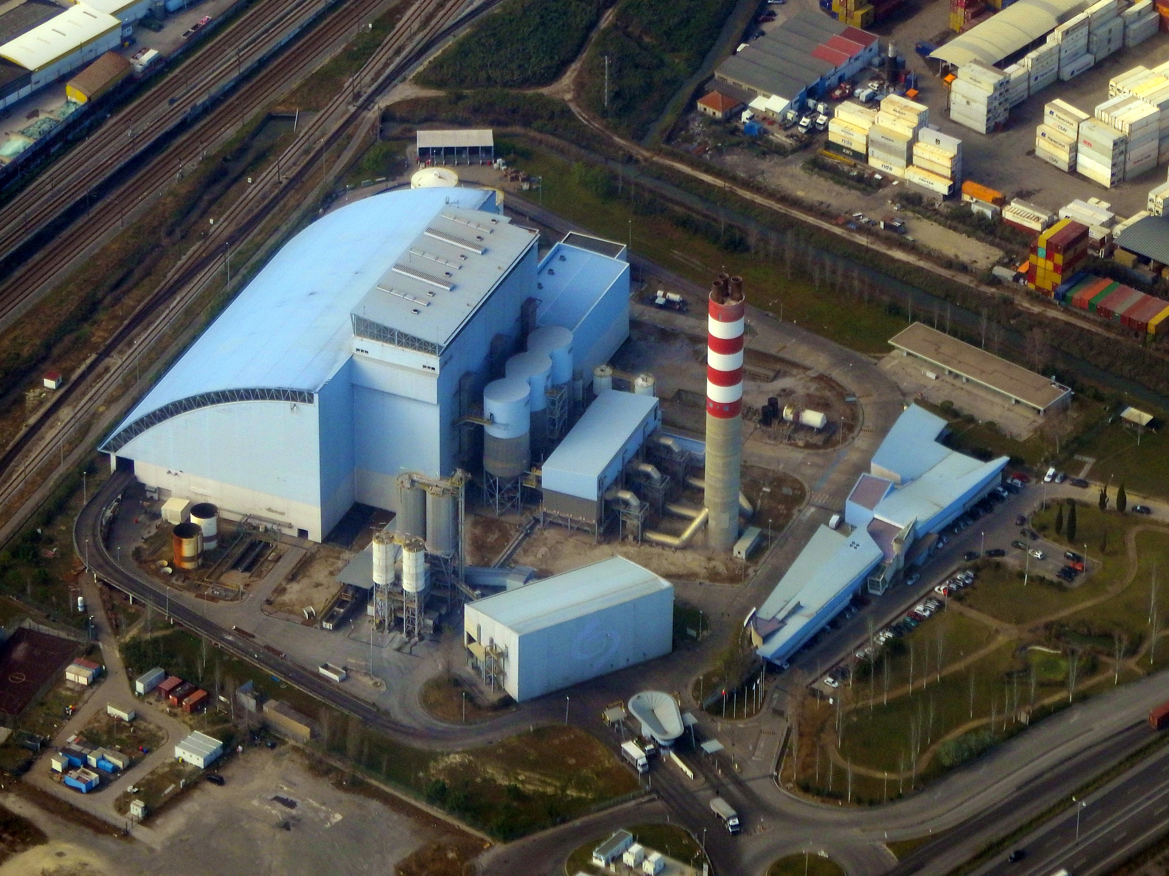 Valorsul facility in Lisbon Portugal. April 2019.